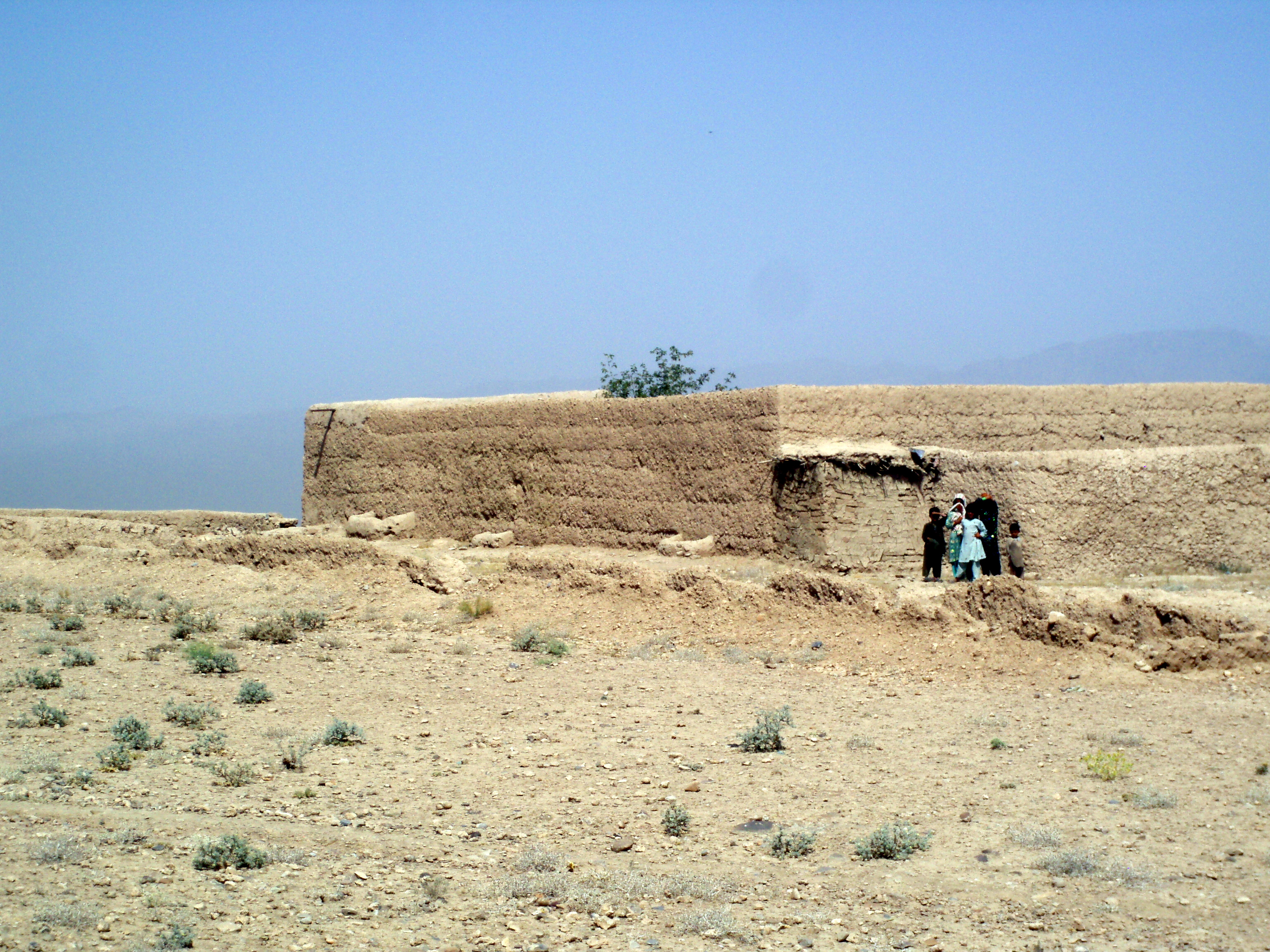 village Kohsky near Tarin Kowt